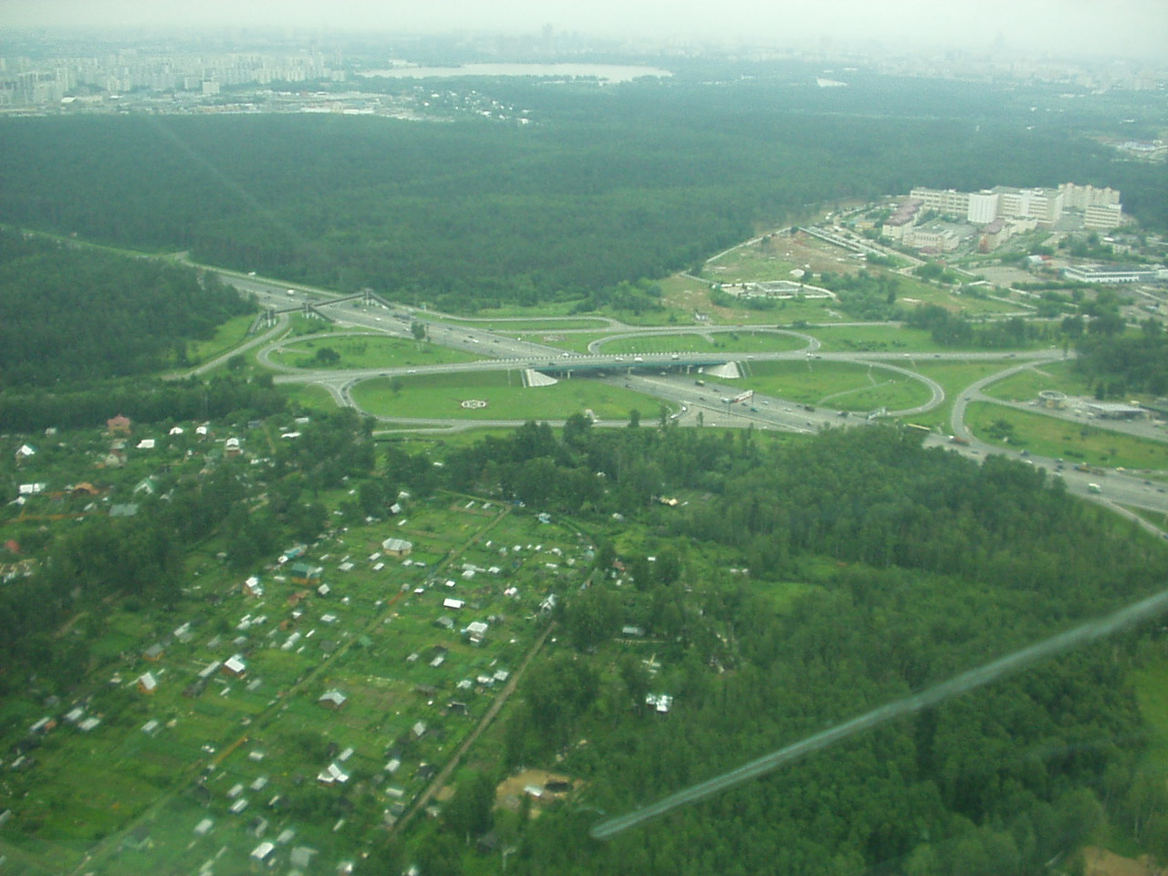 Rublyovskoe shosse (straight horizontal over bridge) crosses MKAD (upper left ro lower right) in Moscow, Russia